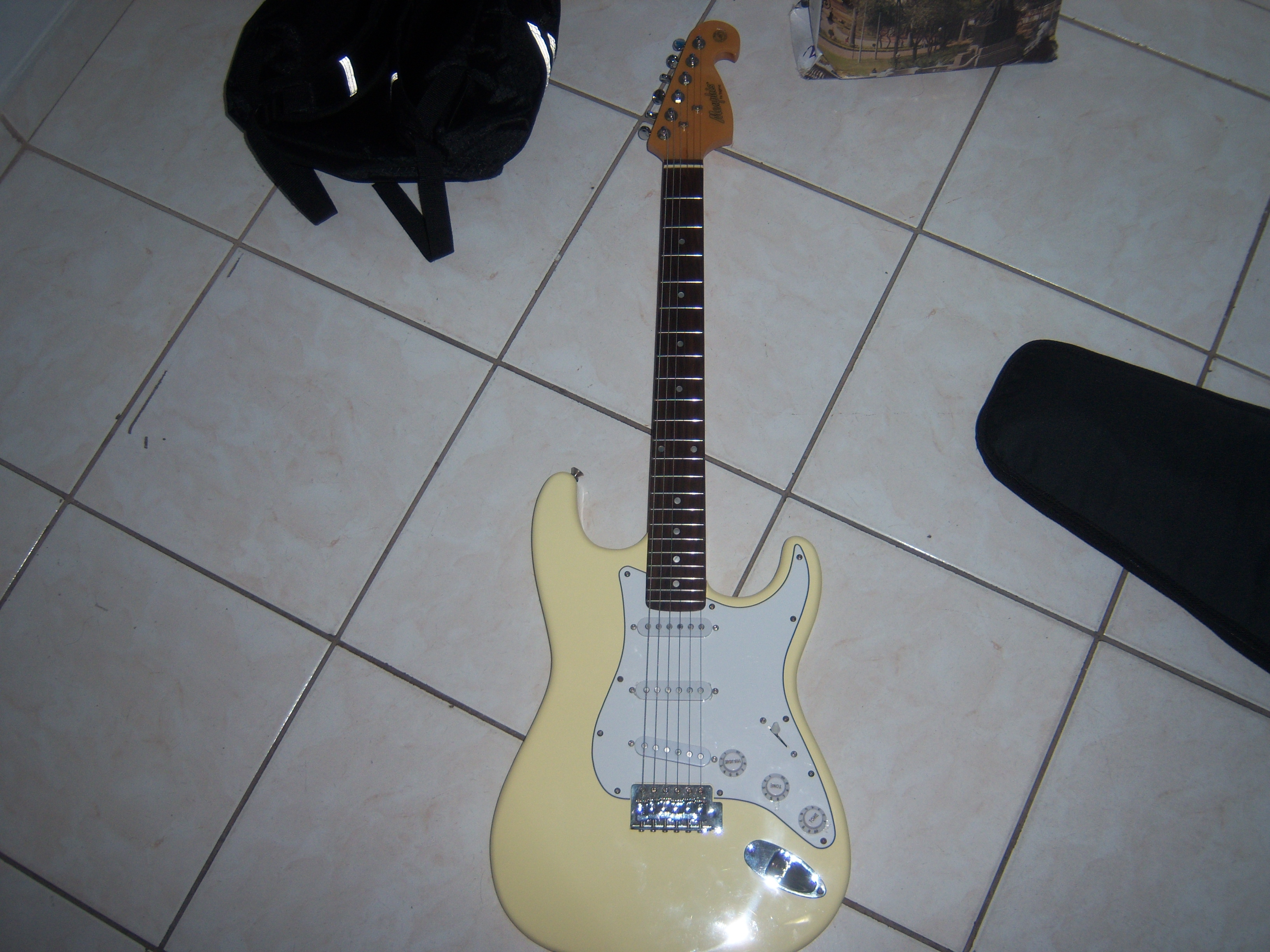 Memphis Tagima Guitar